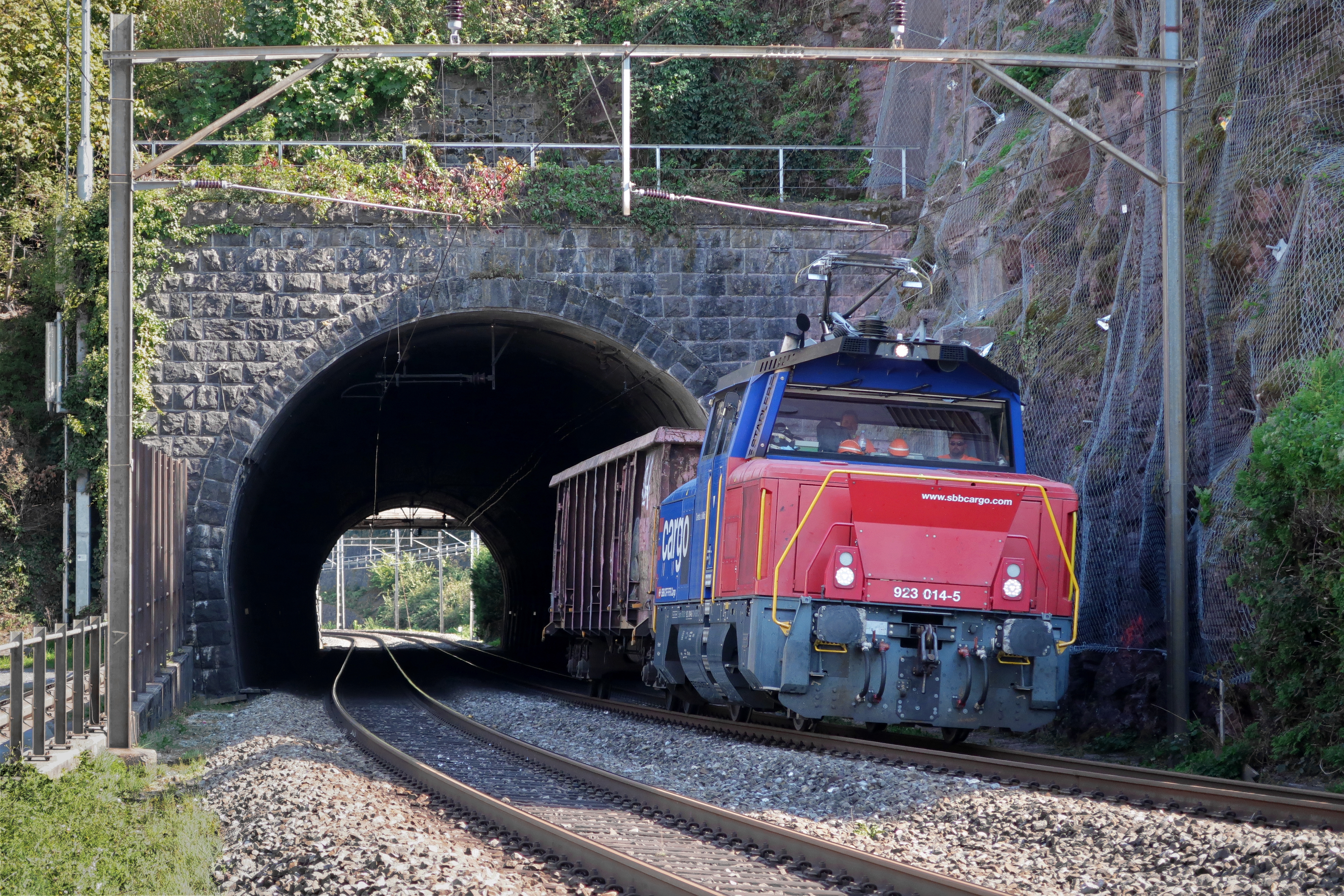 SBB shunter 'Dents du Midi' runs from the east through the 114 m long Bühltunnel into the station Murg on the Walensee line. Switzerland, Sep 12, 2018.